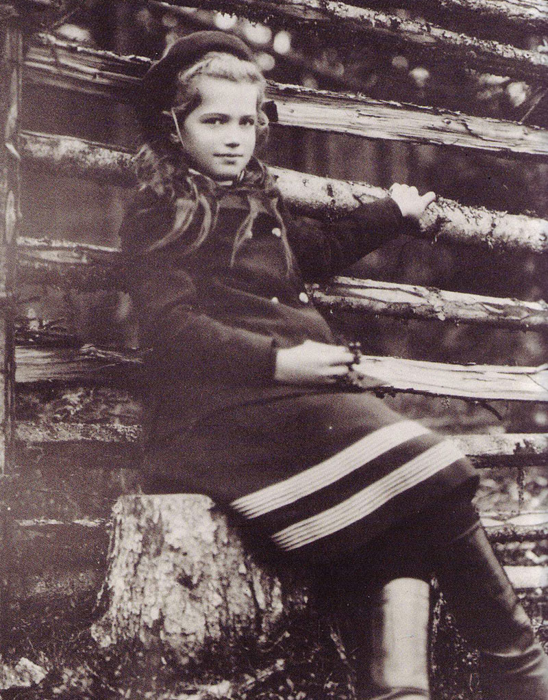 Grand Duchess Maria Nikolaevna of Russia - Finland.